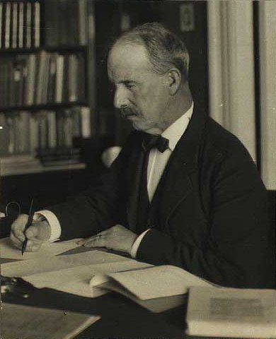 Danish General and military historian August Peder Tuxen (1853-1929)